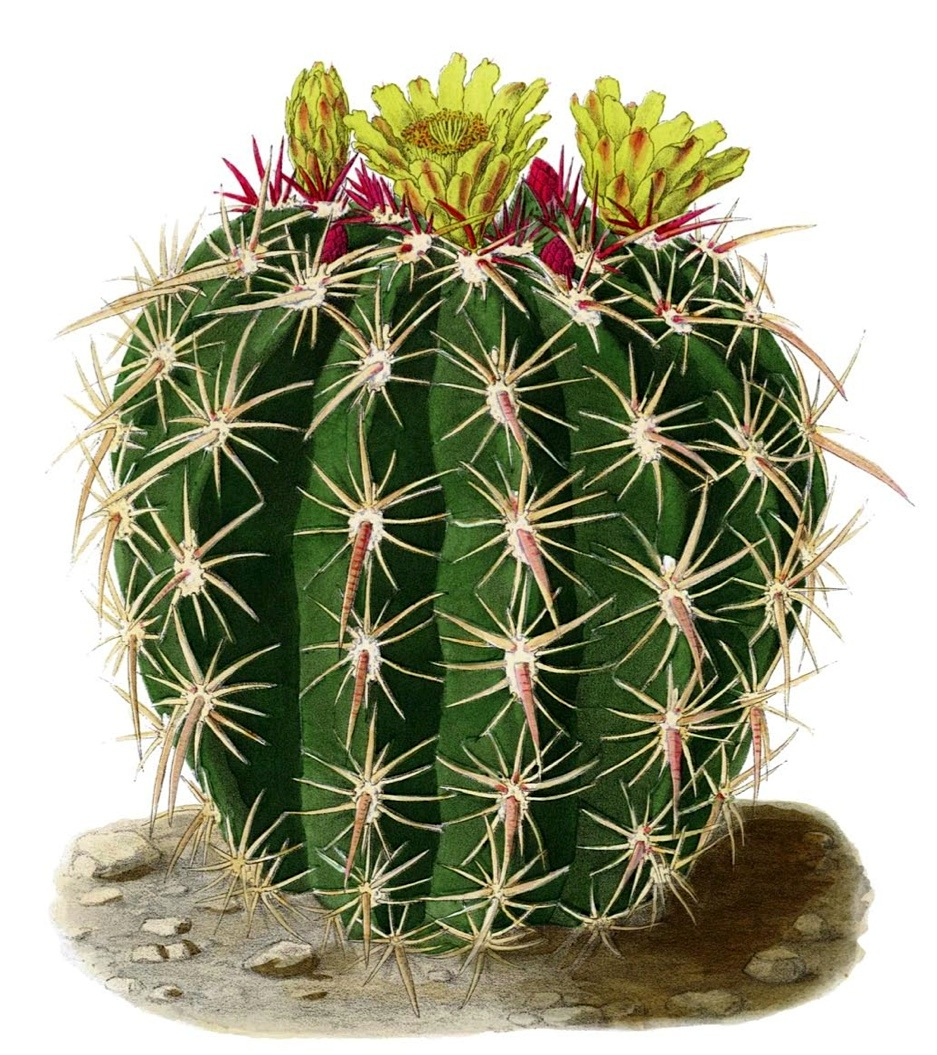 Ferocactus viridescens